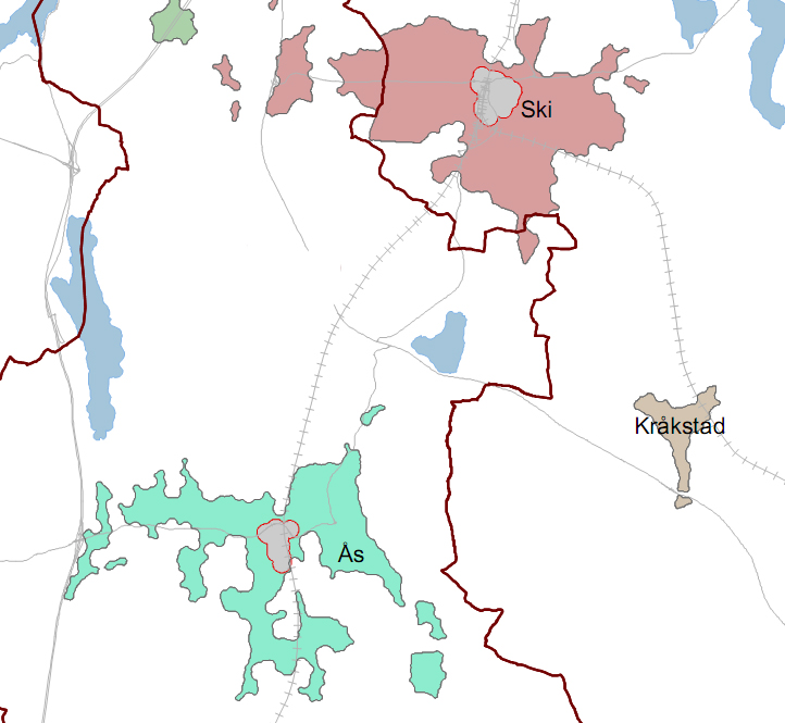 Urban areas of Ås and Ski 2005